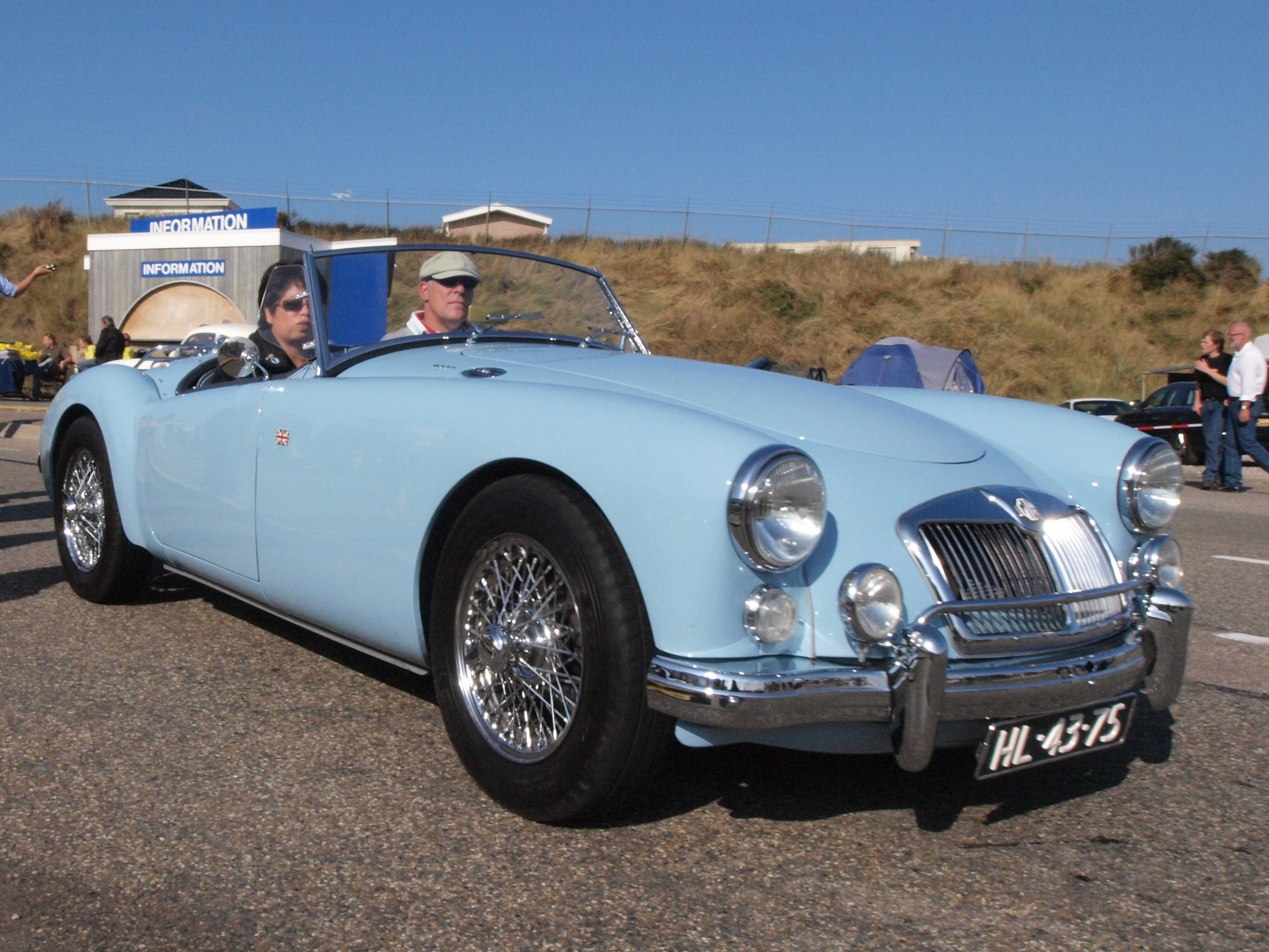 Photographed at the Nationaal Oldtimer Festival Zandvoort 2009, The Netherlands. OLYMPUS DIGITAL CAMERA